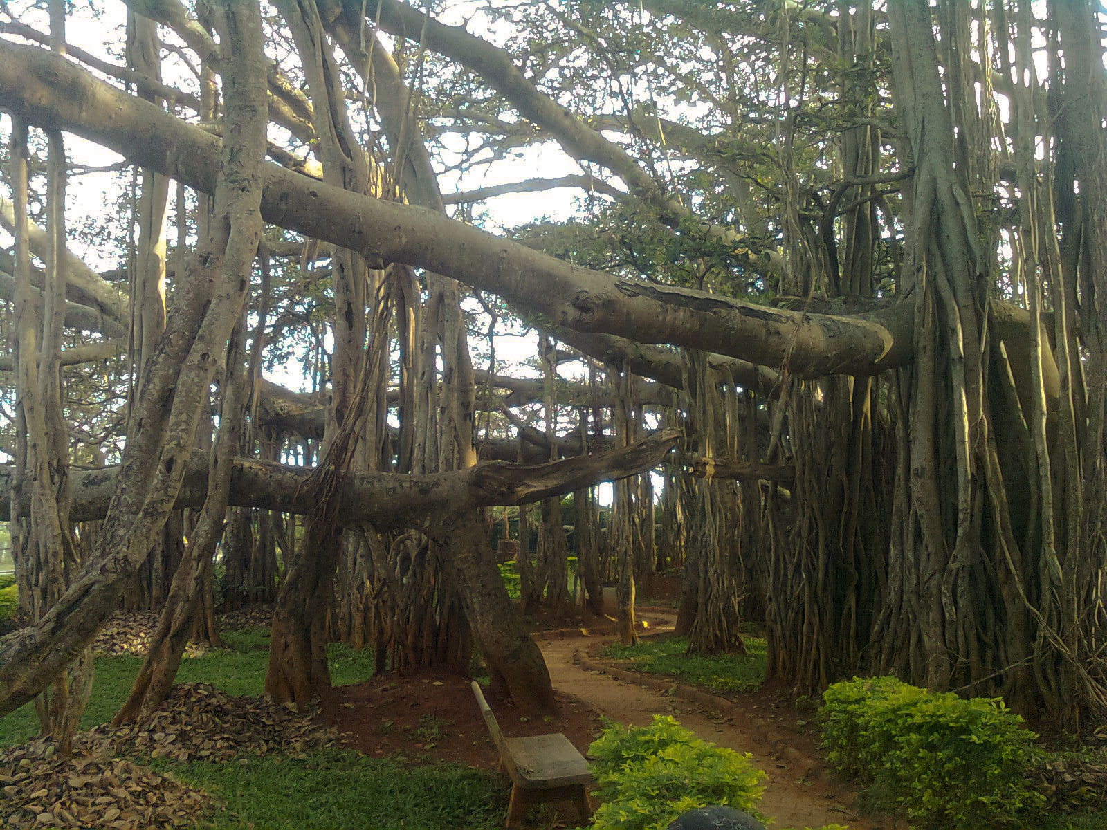 A Big Banyan Tree at Bangalore